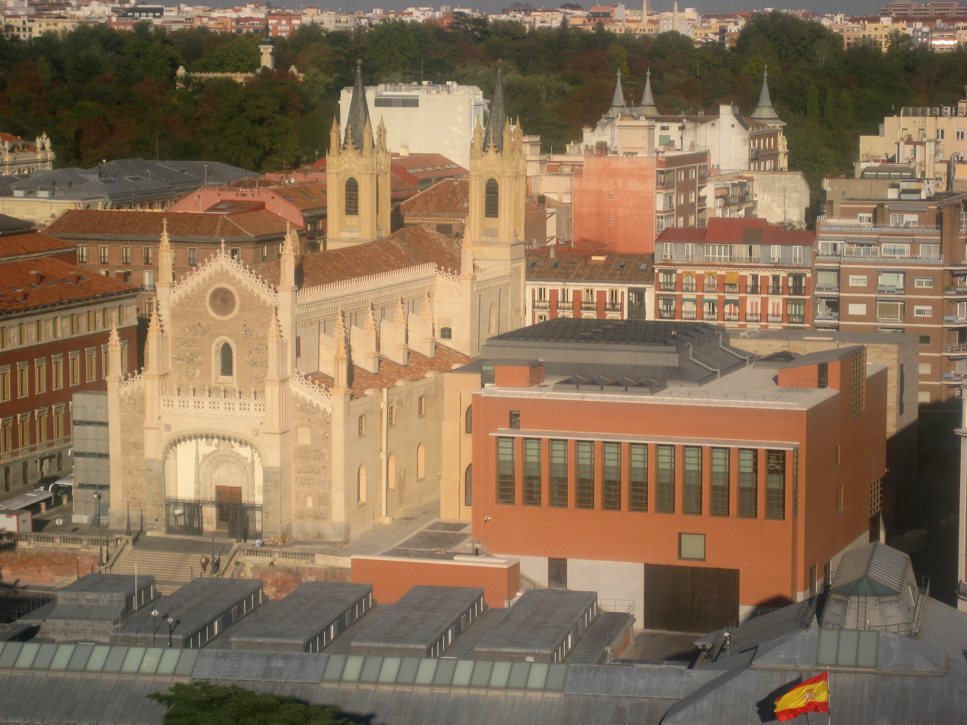 Church and Cloister of the Jerónimos (Madrid, Spain).